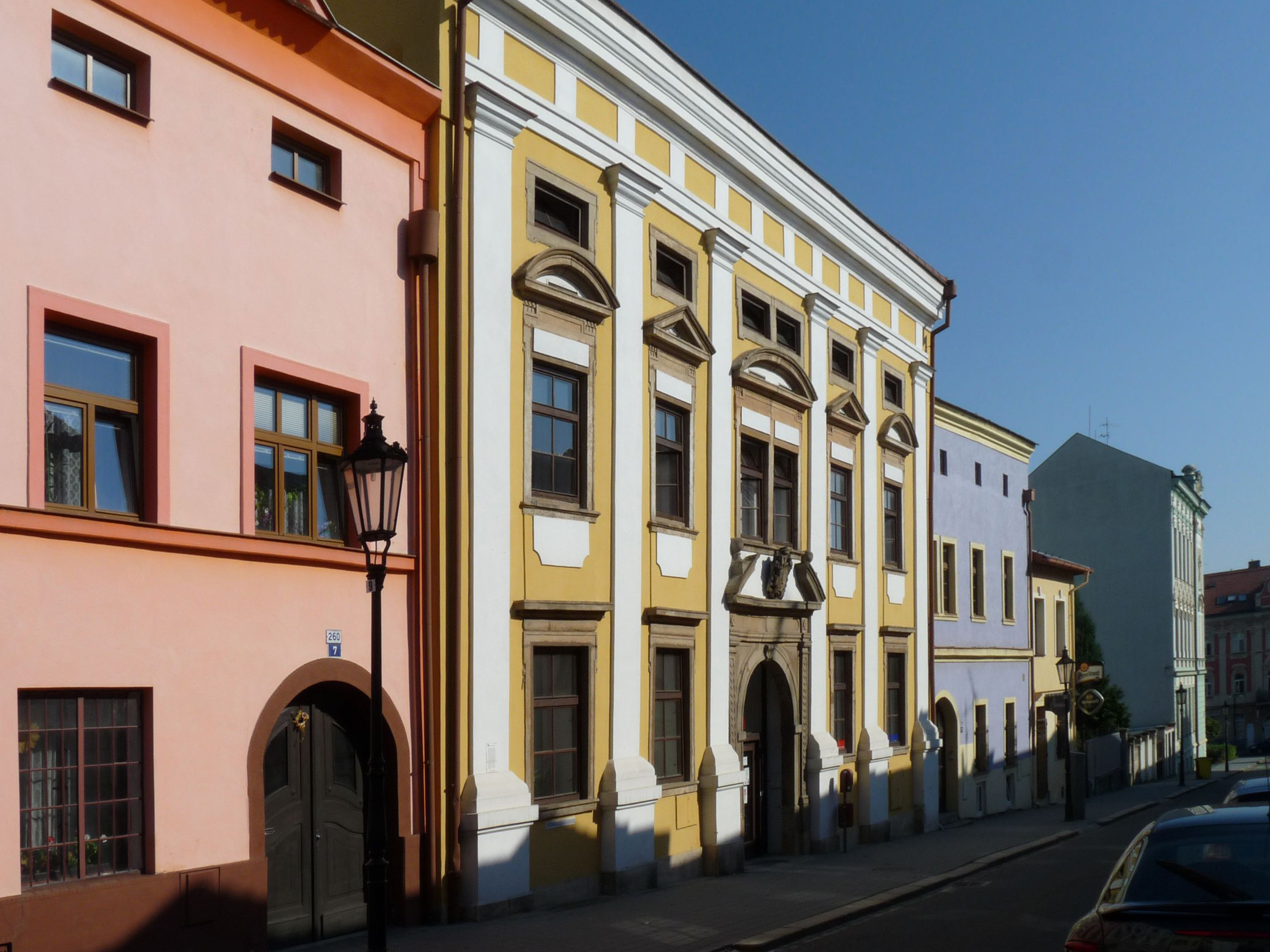 Jewish town hall, Moravcova street, in the town of Kroměříž, Zlín Region, Czech Republic.